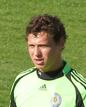 Oleksandr Rybka - Ukrainian footballer